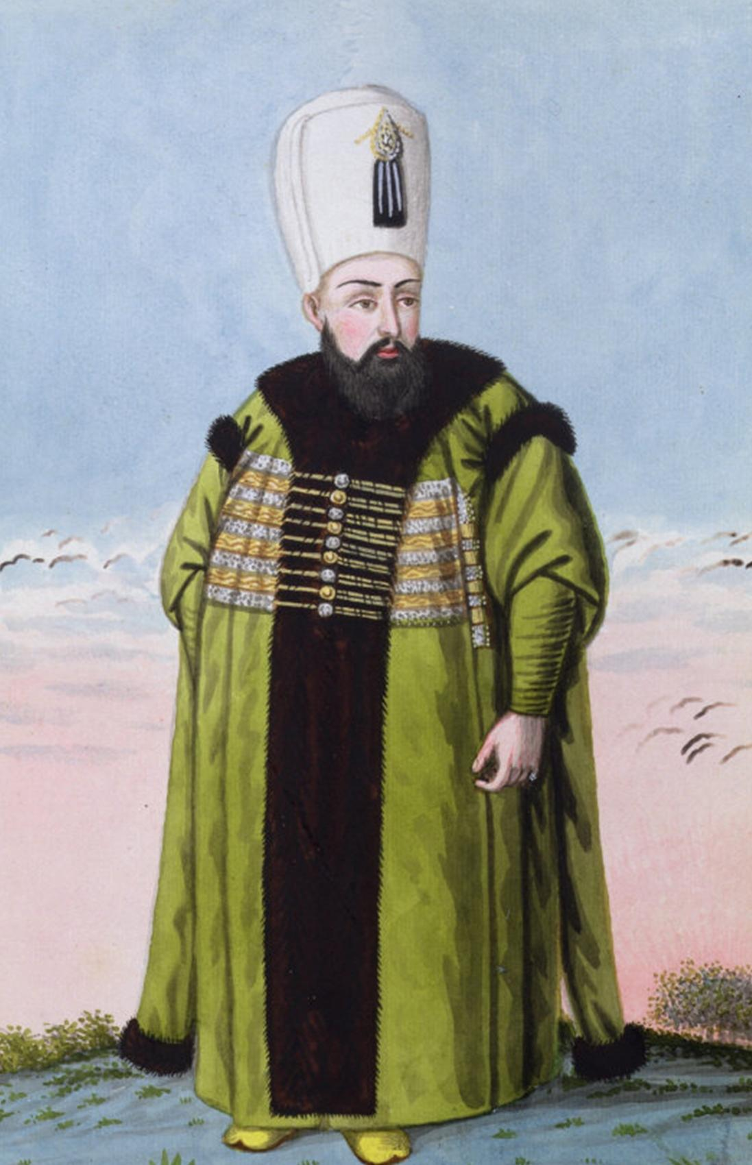 Portrait of Ibrahim, Sultan of the Ottoman Empire (1640-1648). The portrait has been printed using the Giclée process.